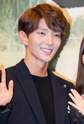 Lee Jun-ki at "Moon Lovers - Scarlet Heart Ryeo" press conference, 24 August 2016